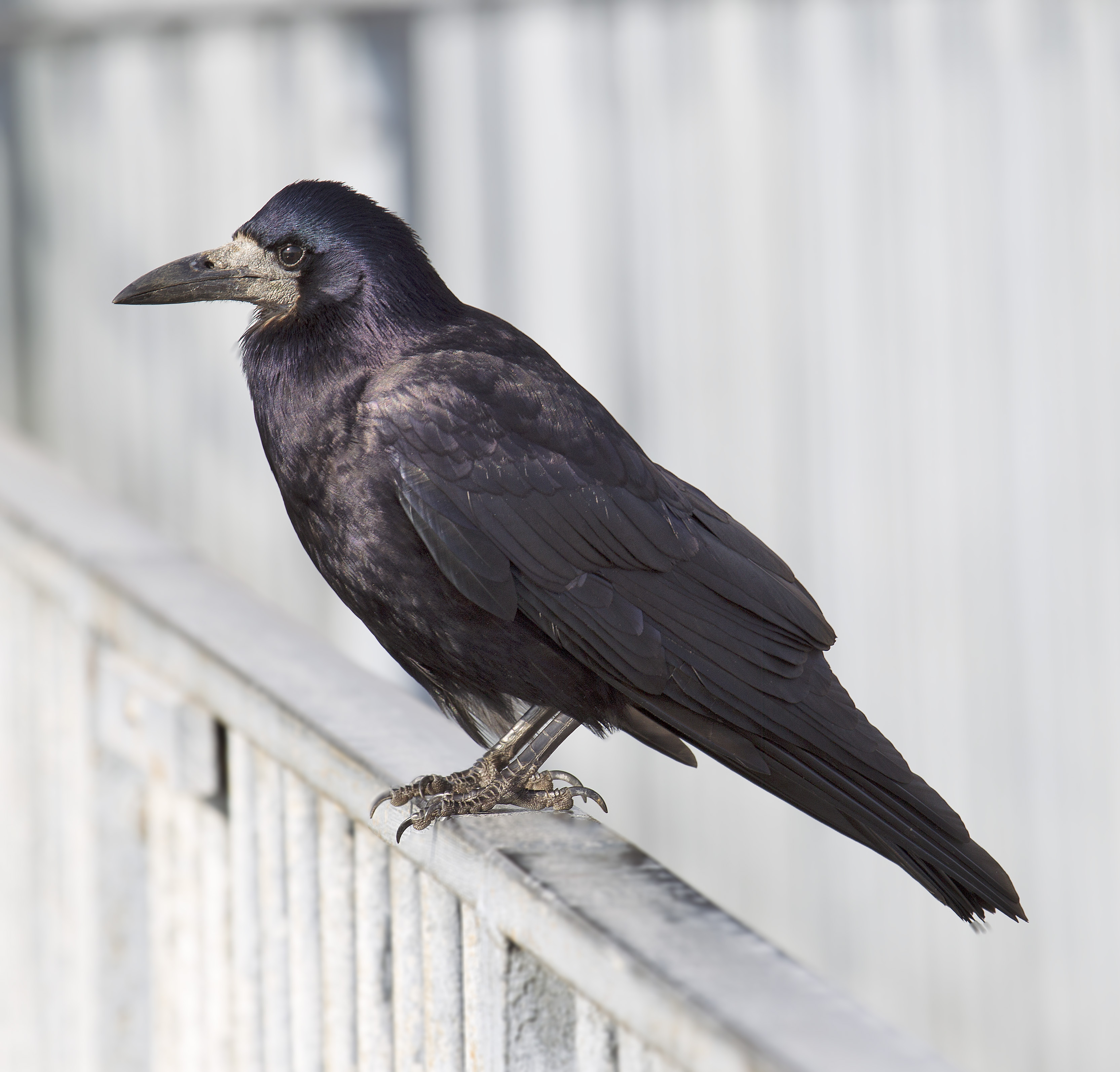 Rook